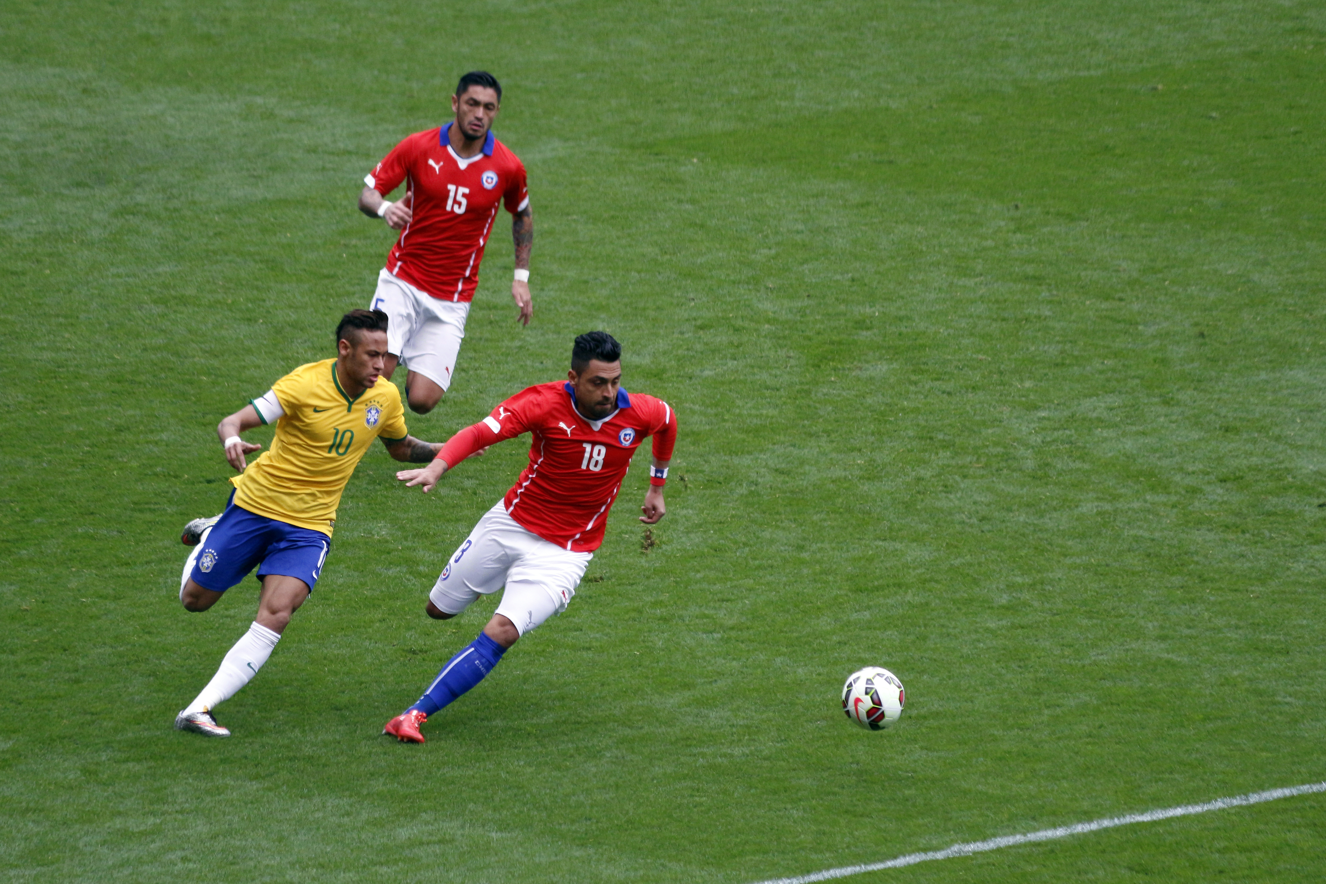 Neymar Gonzalo Jara Rodrigo Millar 'Brazil vs Chile, International Friendly, 29th March, 2015, Emirates Stadium, London